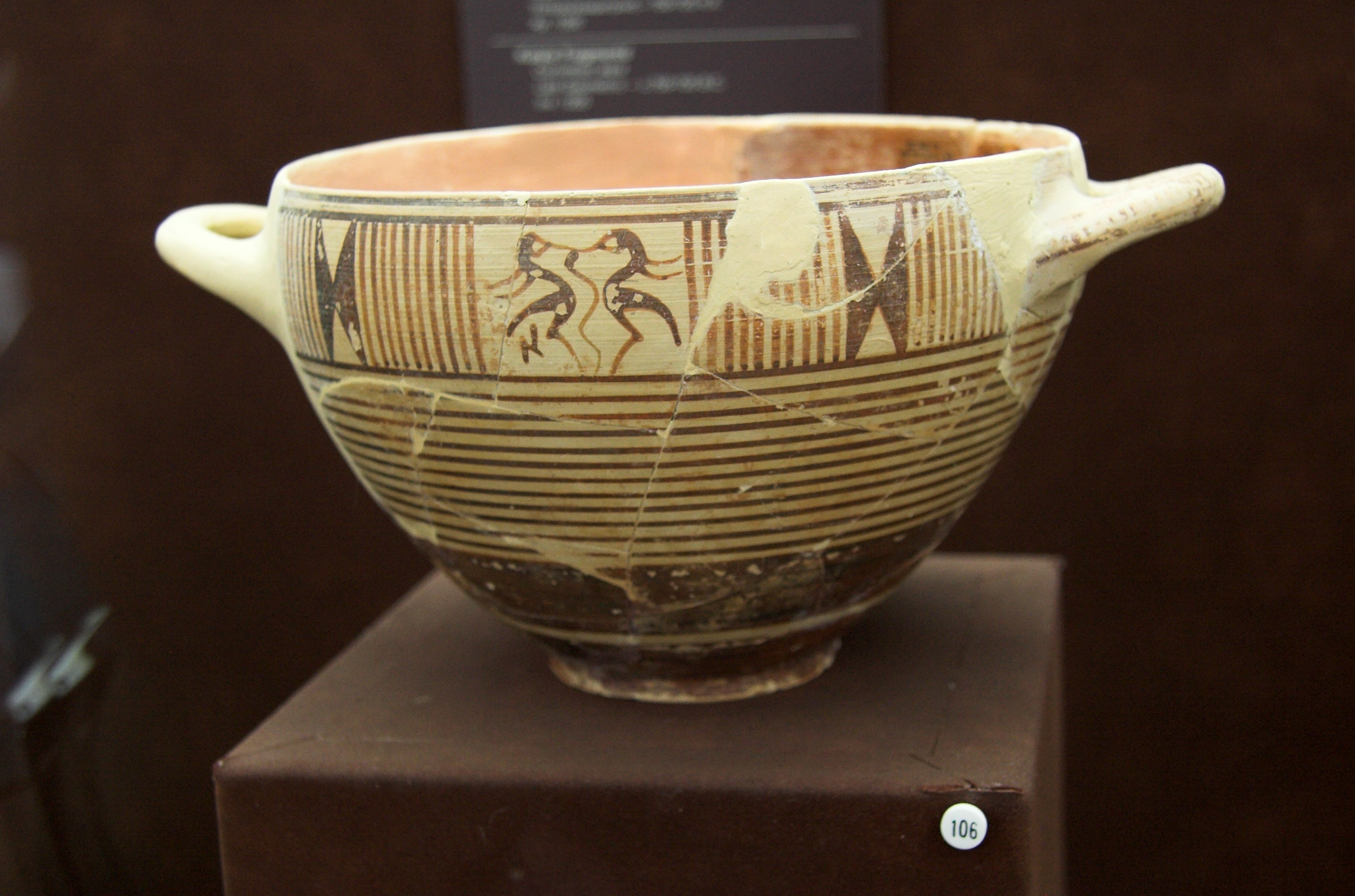 Pozdně geometrická kotylé, nalezený v Zagora na Andru, import z Korinthu, -750/-720. Archeologické muzeum na Andru, inv. 2004.